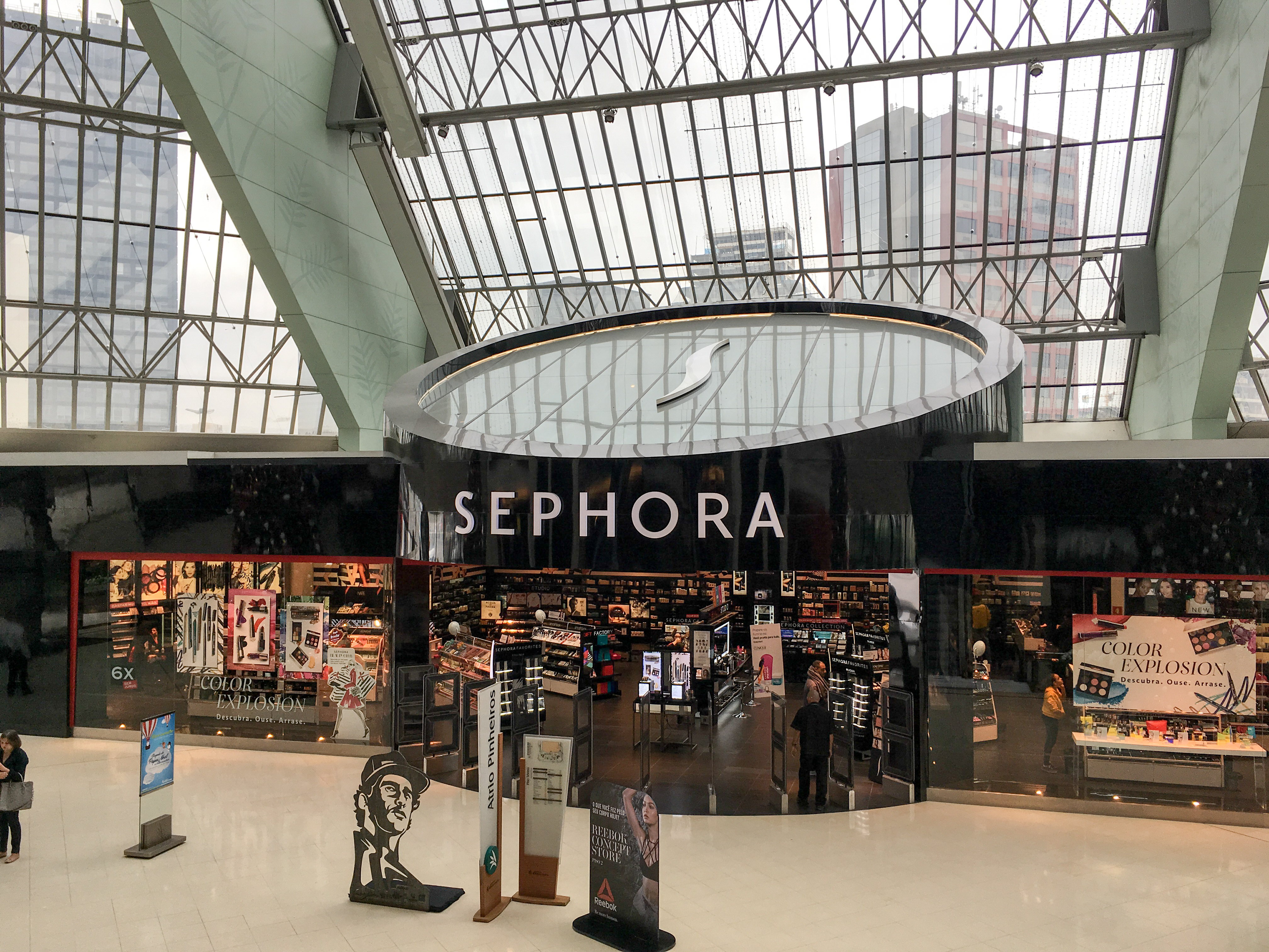 Shopping Eldorado, Sao Paulo, Brazil.